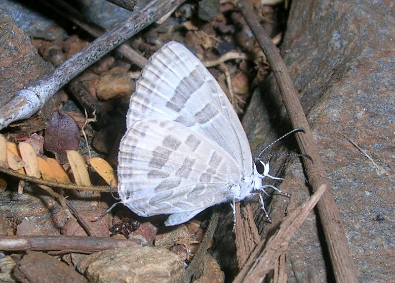 Common Caerulean Jamides celeno